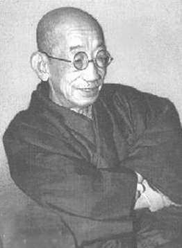 Tatsukichi Minobe (1873–1948)